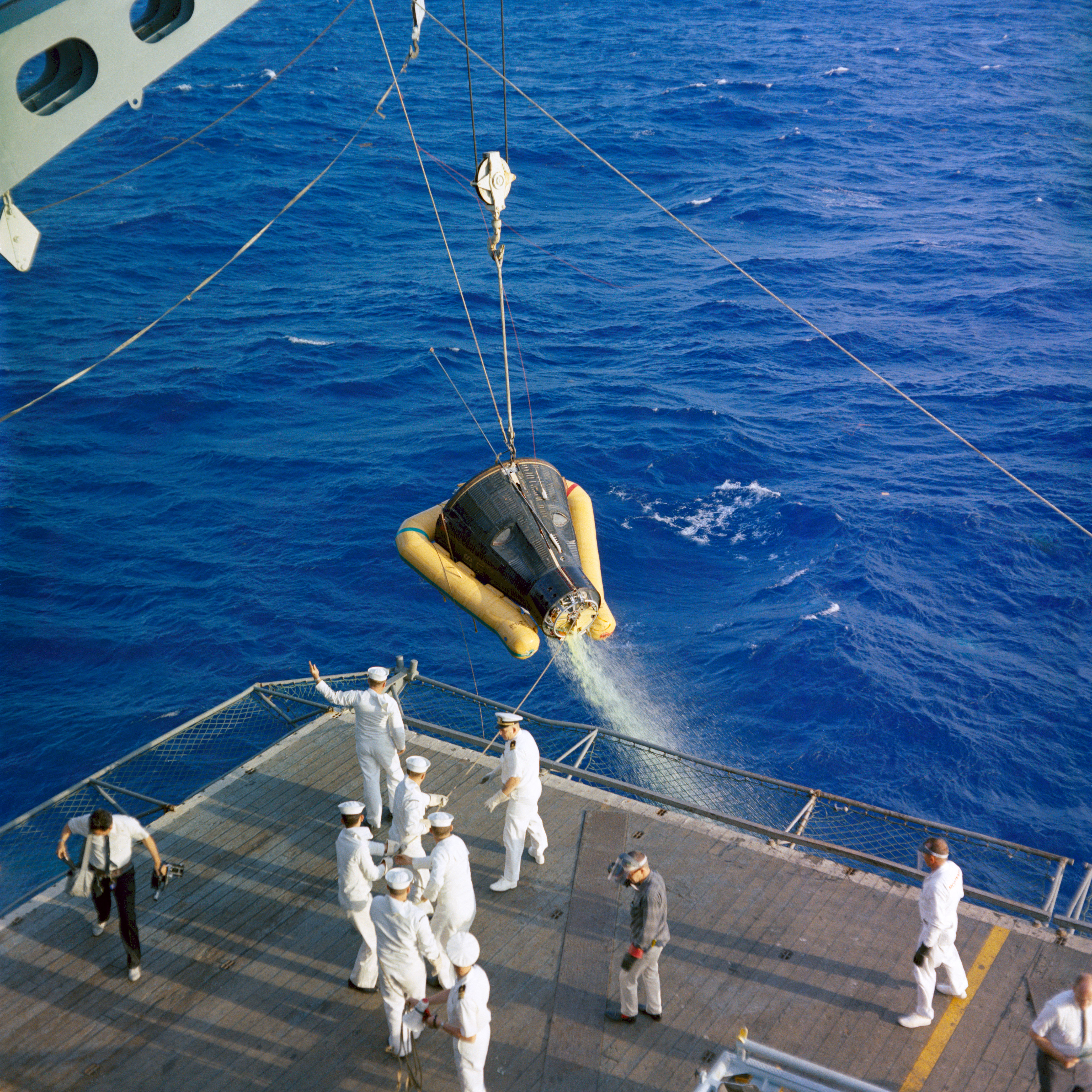 The Gemini-3 spacecraft, with flotation collar still attached, is shown being hoisted aboard the USS Intrepid during recovery operations following the successful Gemini-Titan 3 flight.